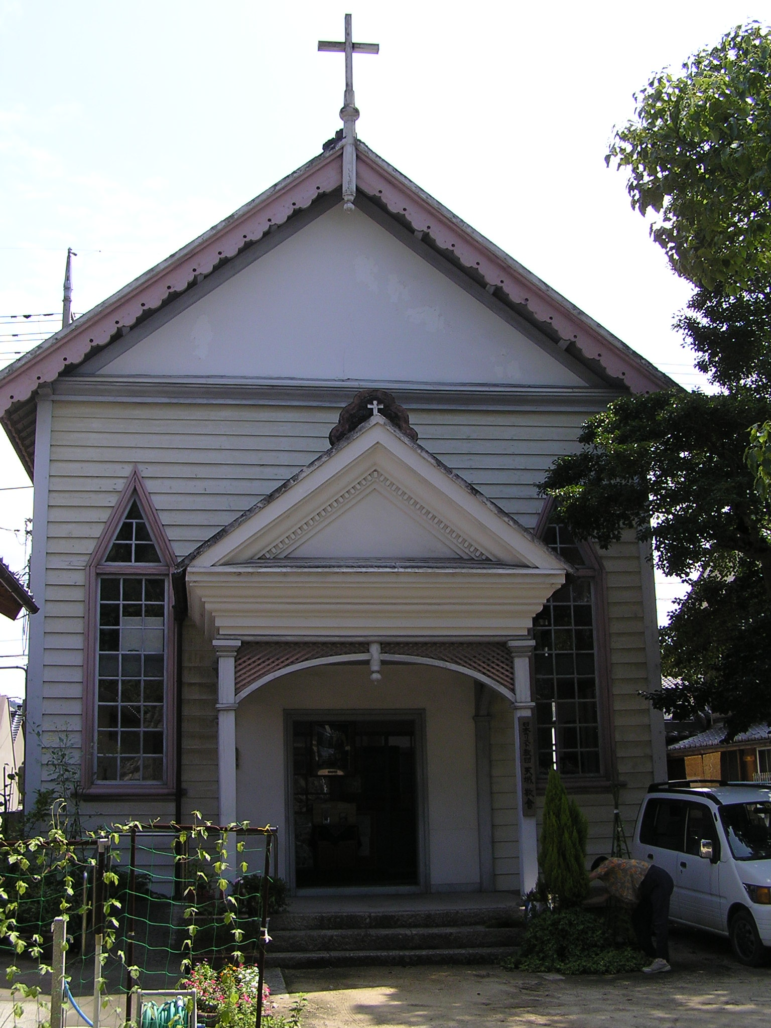 Amaki church United Church of Christ in Japan